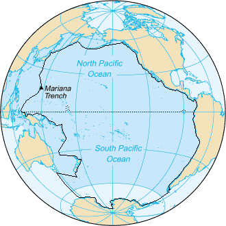 CIA map of Pacific Ocean (File:Pacific Ocean - en.png) with IHO boundaries [1]